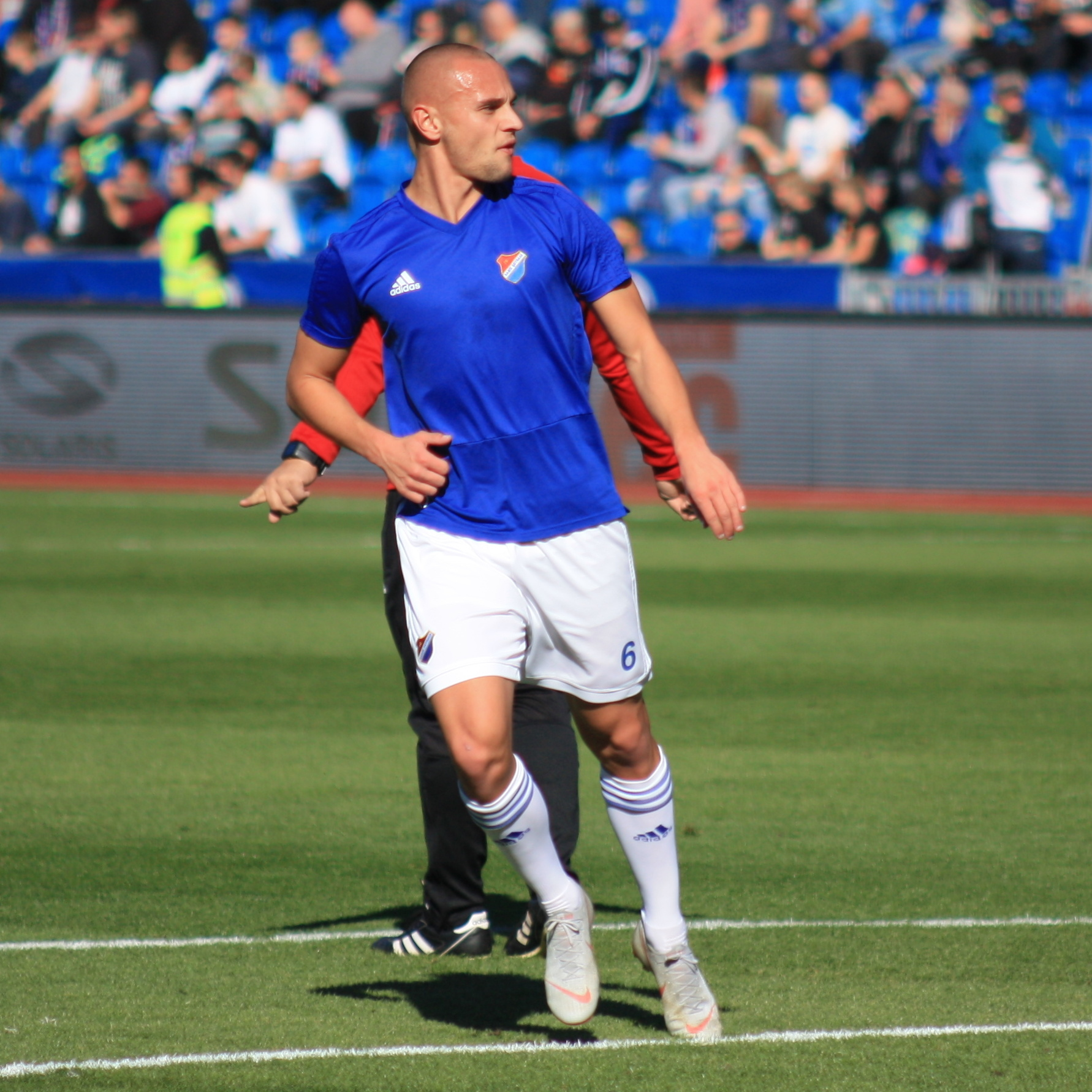 Denis Granečný At Czech First League (Fortuna Liga) match FC Baník Ostrava-SK Slavia Praha played on 30. 9. 2018